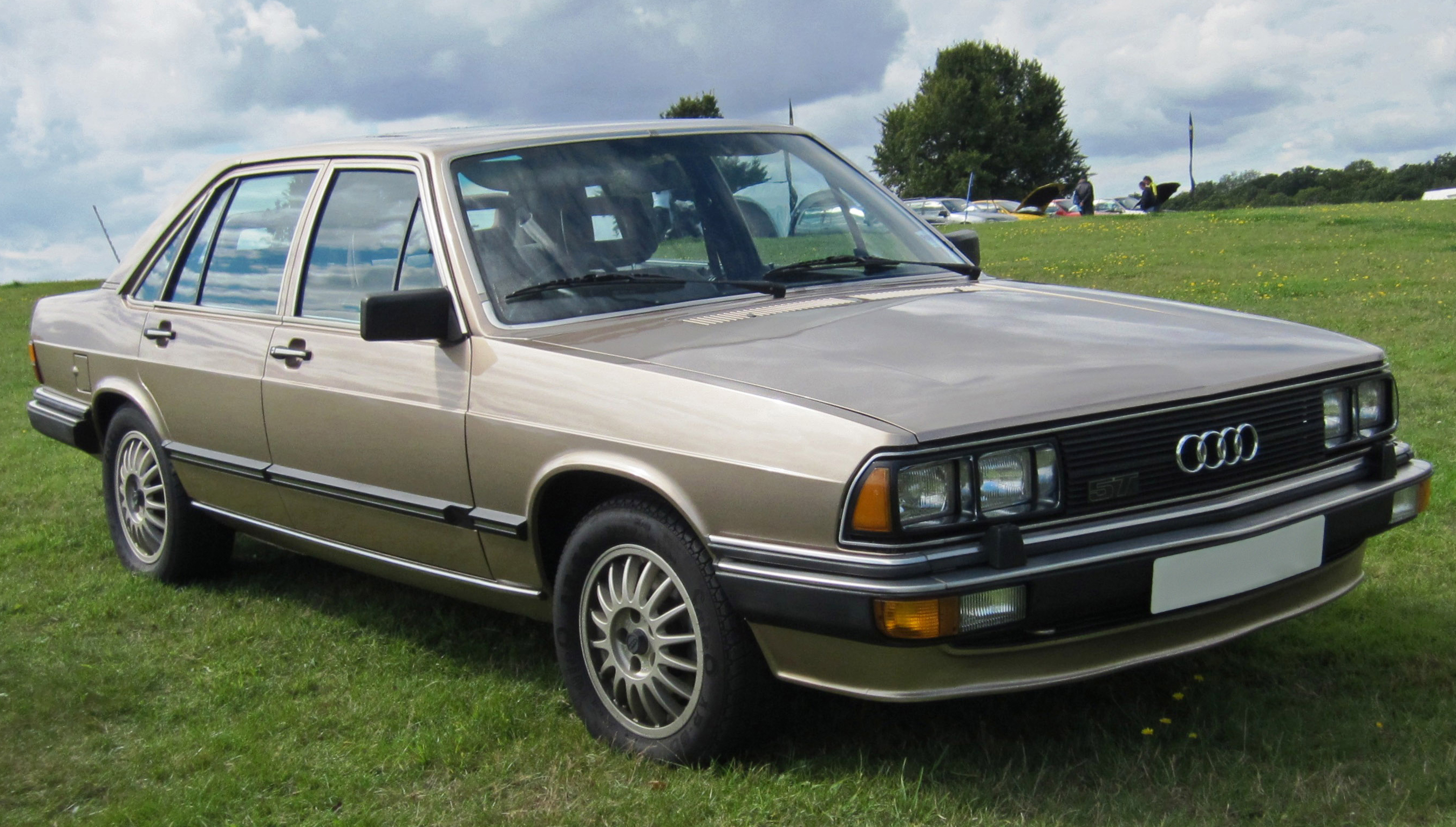 I edited the original image for use on my ad-supported automotive website (Ate Up With Motor), obscuring the numberplate. This is the edited version.